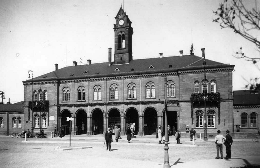 Freiburg Main Station in 1890